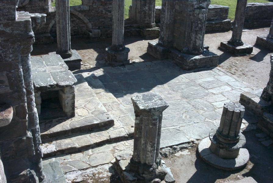 Chapelle de Languidou : choeur (vue intérieure)